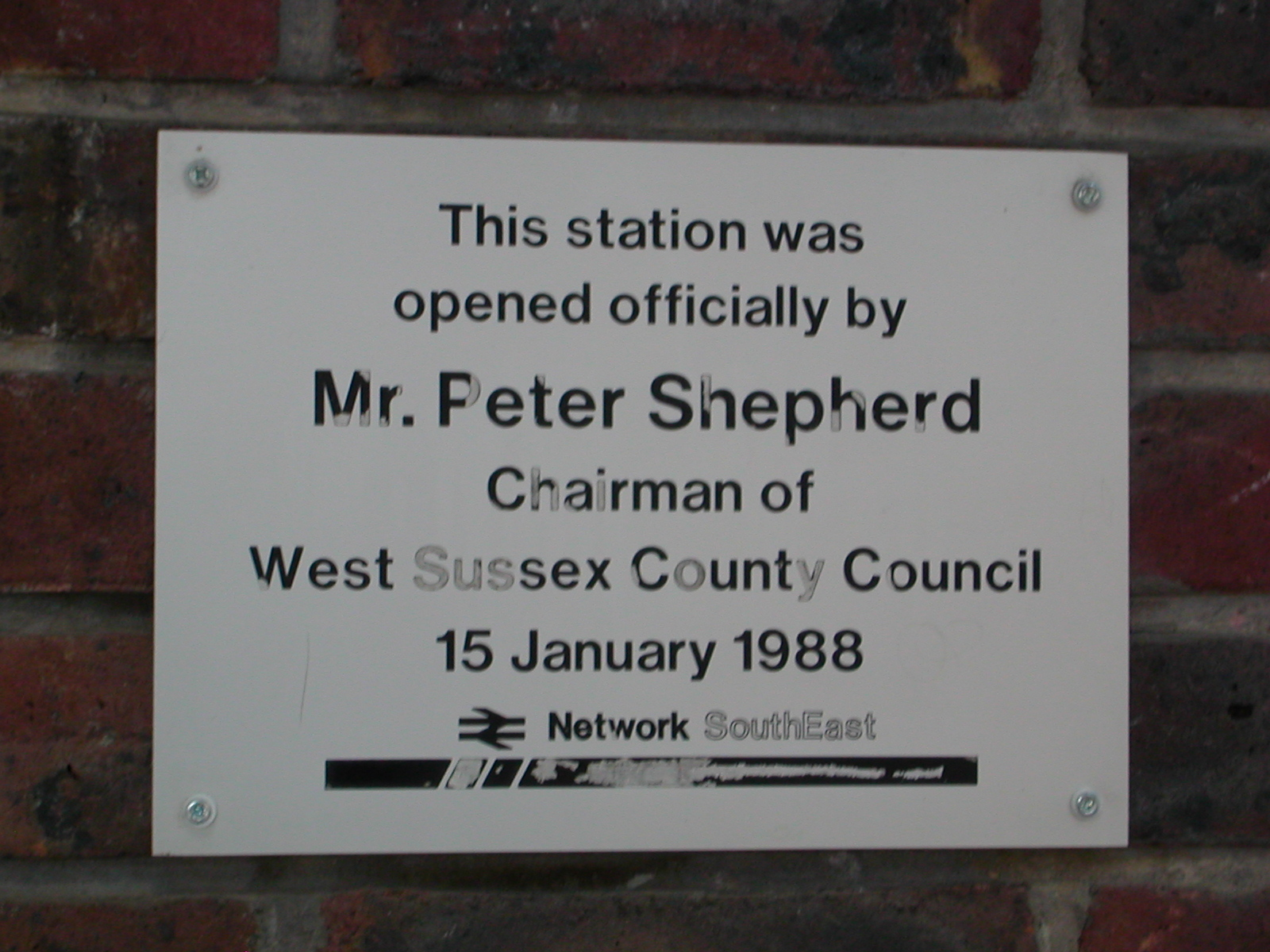 Commemorative plaque at Littlehampton station. Photographed on 7th July 2007.